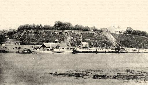 Sozh in Gomel in 19's century